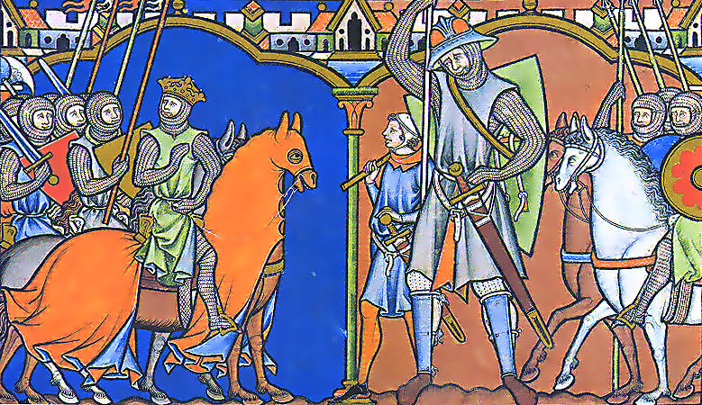 Goliath challenges the Israelites scene from Maciejowski Bible